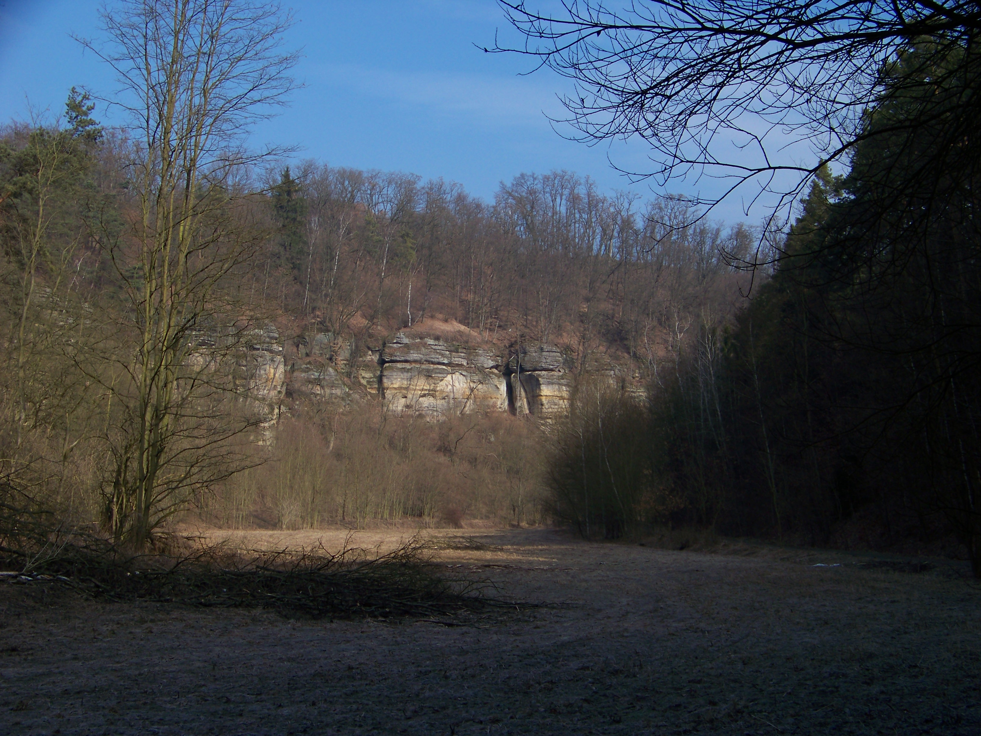 Vysoká-Chodeč, Mělník District, Central Bohemian Region, the Czech Republic. Želízky, a sandstone formation, protected nature monument.